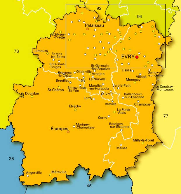 This image was copied from fr. The original description was: Département de l Essonne Cartes sous licence de documentation libre GNU